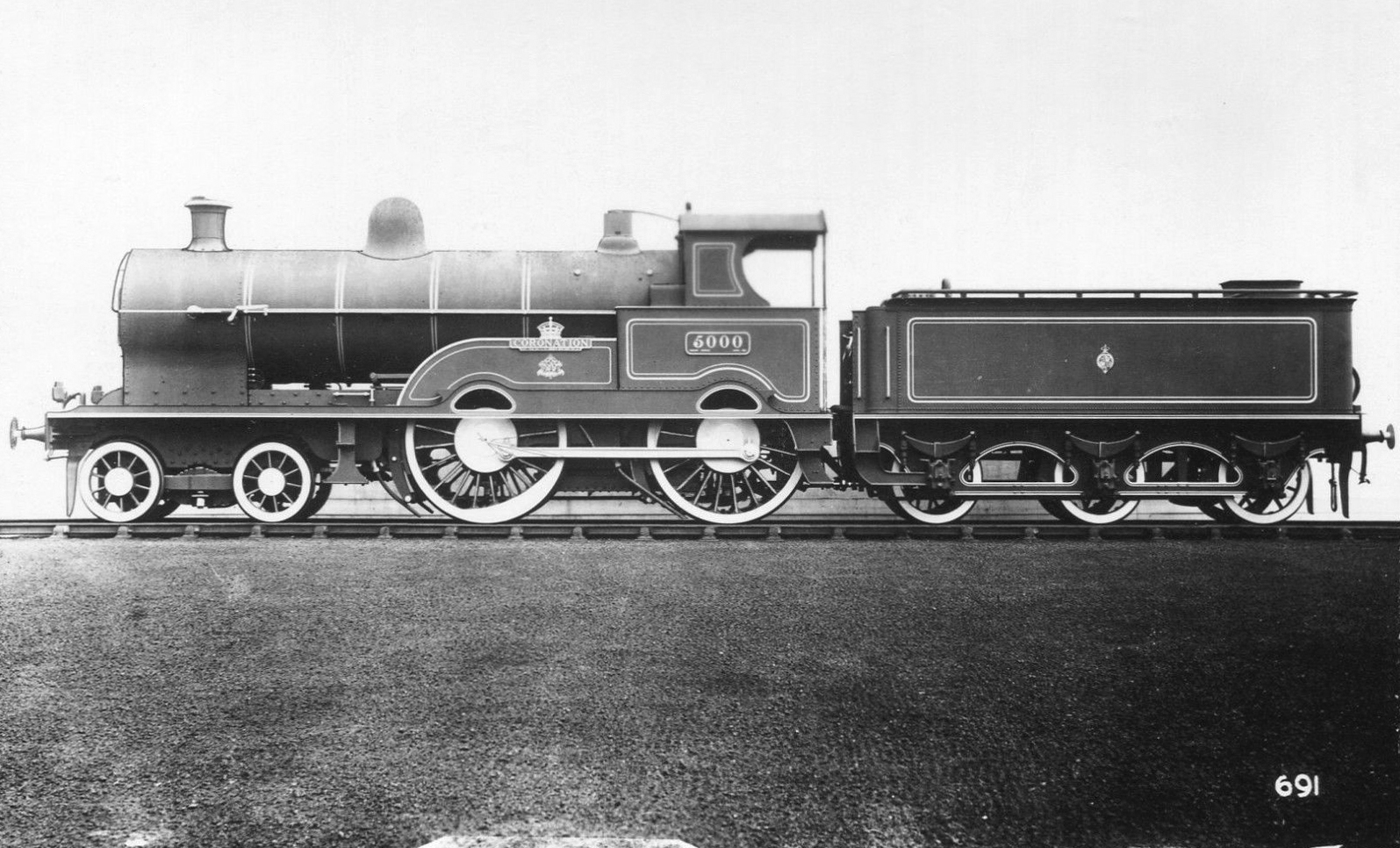 Photograph of LNWR locomotive No. 5000 'Coronation'